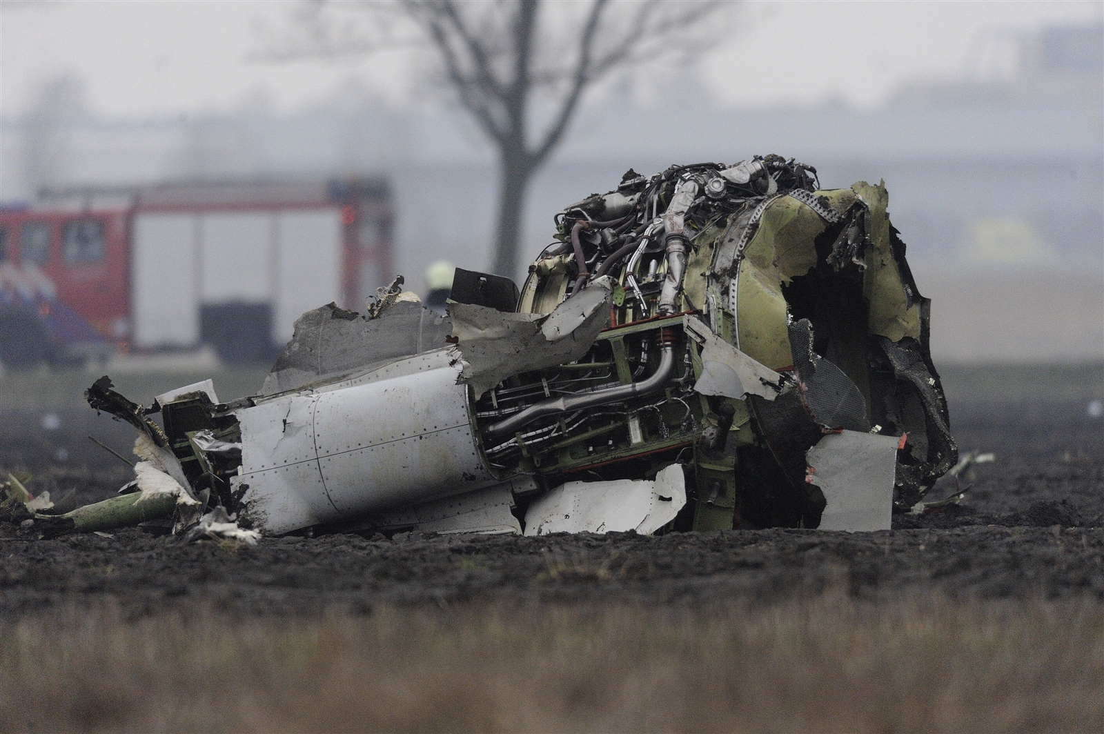 Crash site of Turkish Airlines flight TK 1951 at Schiphol, Amsterdam, The Netherlands. February 25, 2009; Copyright Fred Vloo / RNW